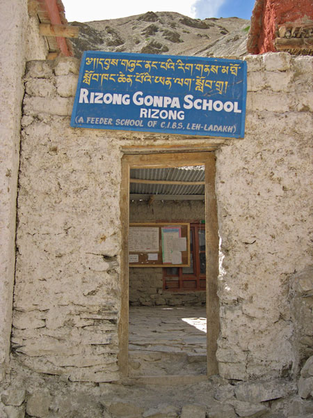 Rizong gompa, Ladakh, India